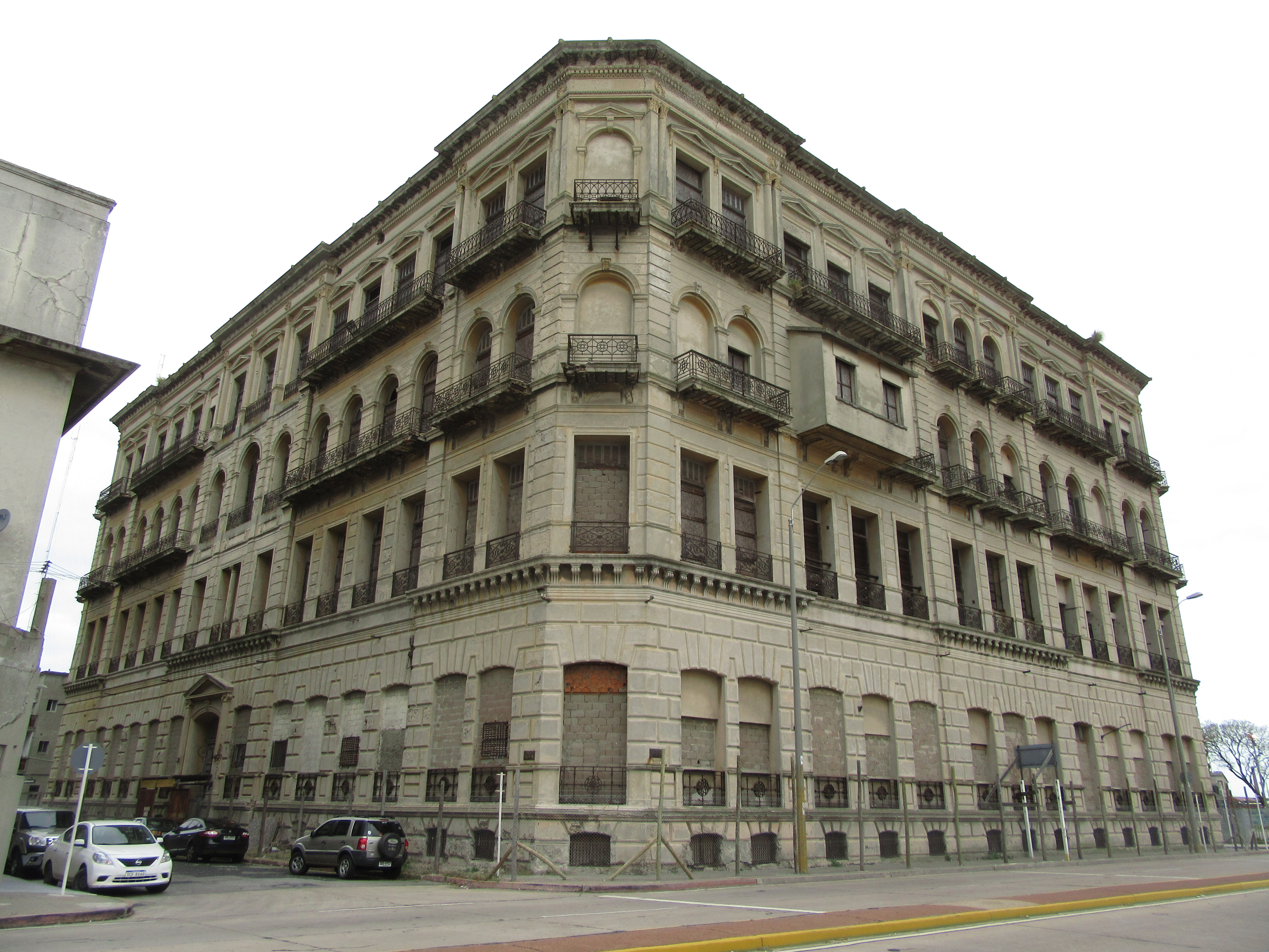 Montevideo